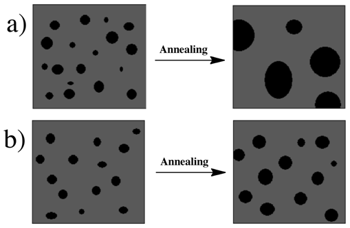 Wikipic3_1.png